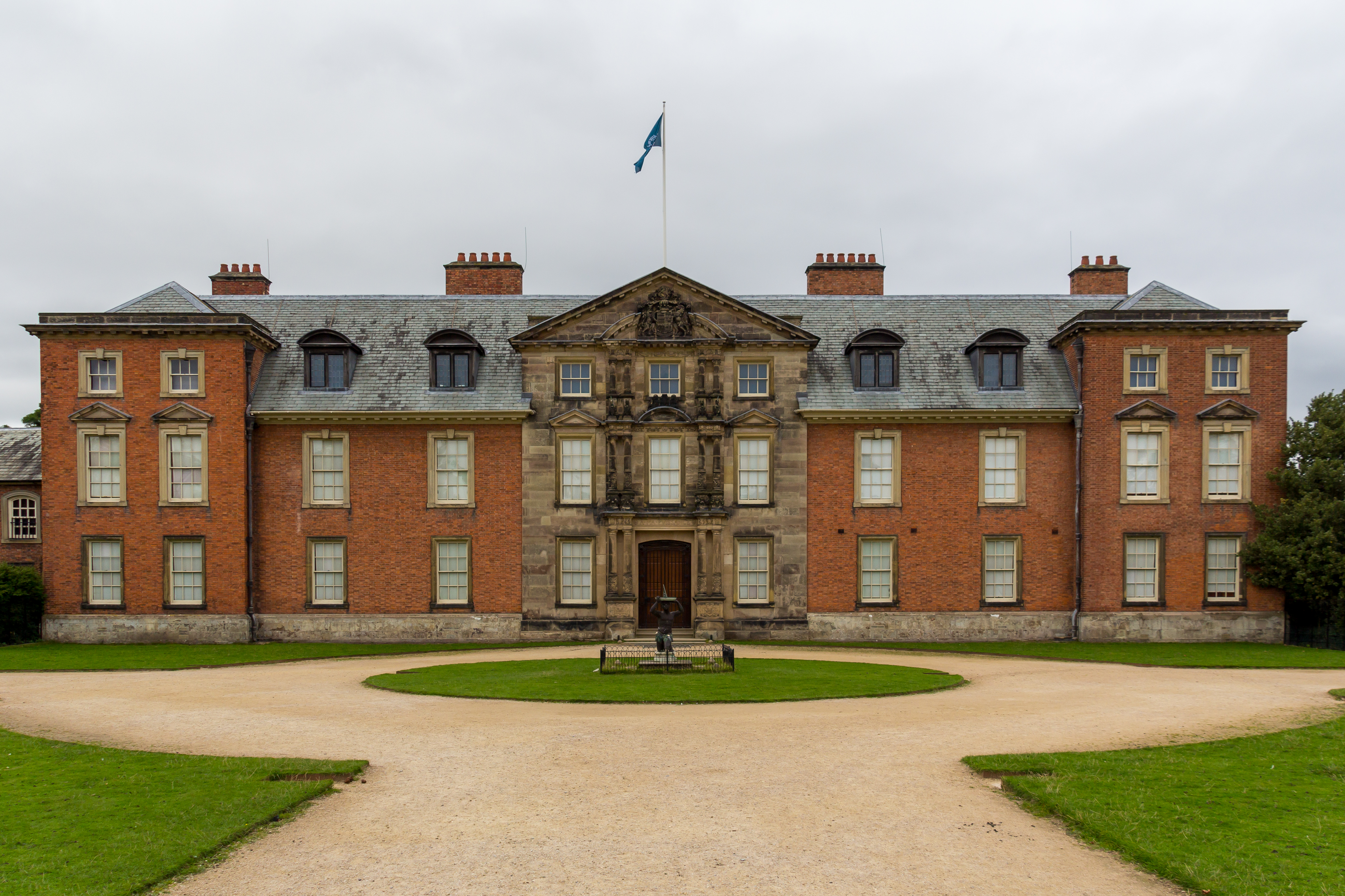 Dunham Massey Hall, United Kingdom